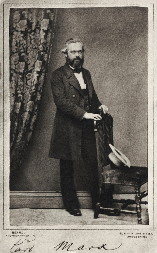 Photographic portrait of Karl Marx.